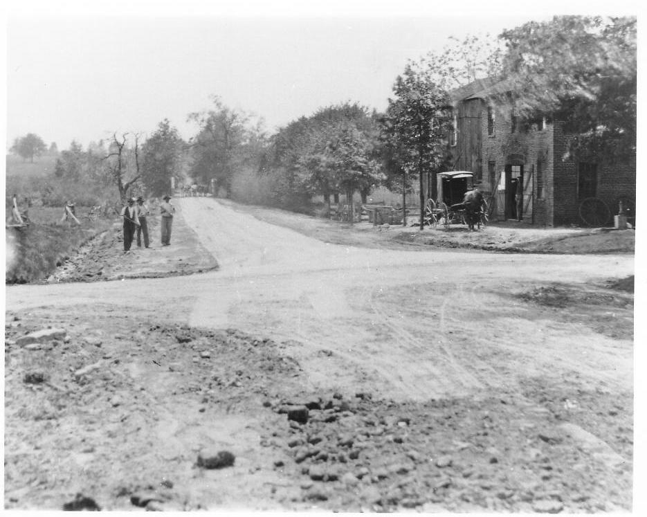 A view of current-day U.S. Route 1 through Mercer County.